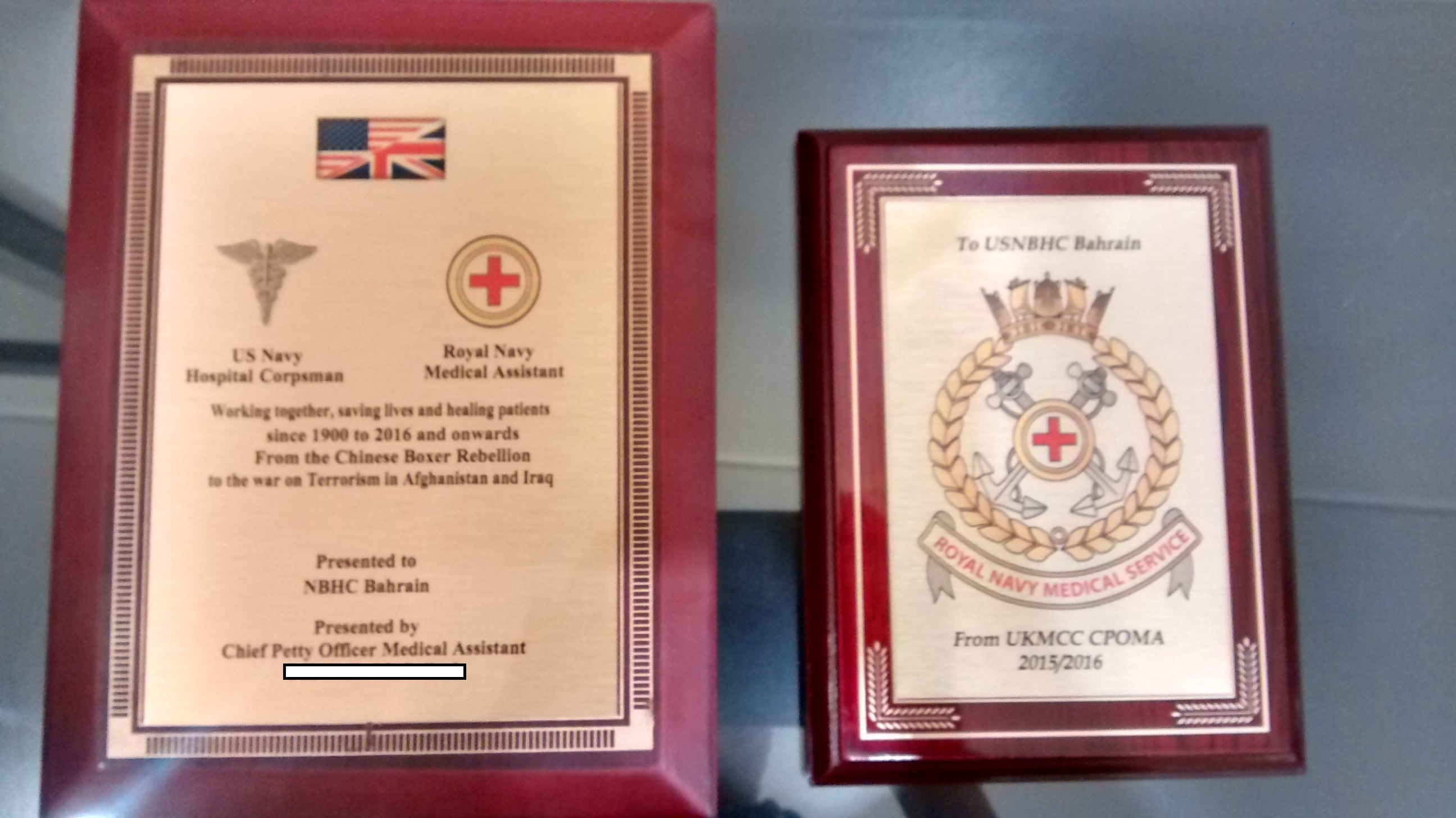 Presented to USNHC Bahrain by myself 2016.